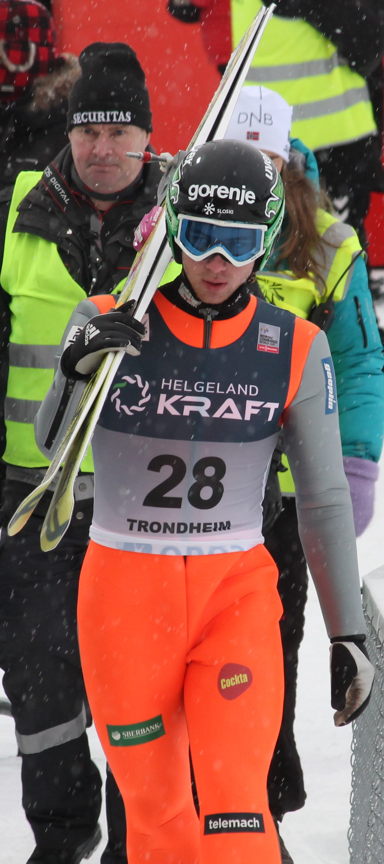 Marjan Jelenko (Slovenia) after his jump during the Nordic Combined World Cup 10th February 2016 in Trondheim, Norway. This picture is taken during the jumping part.